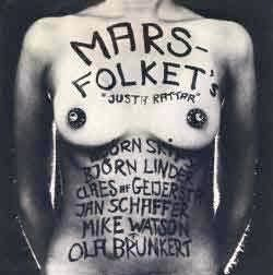 Marsfolket Maria Maria